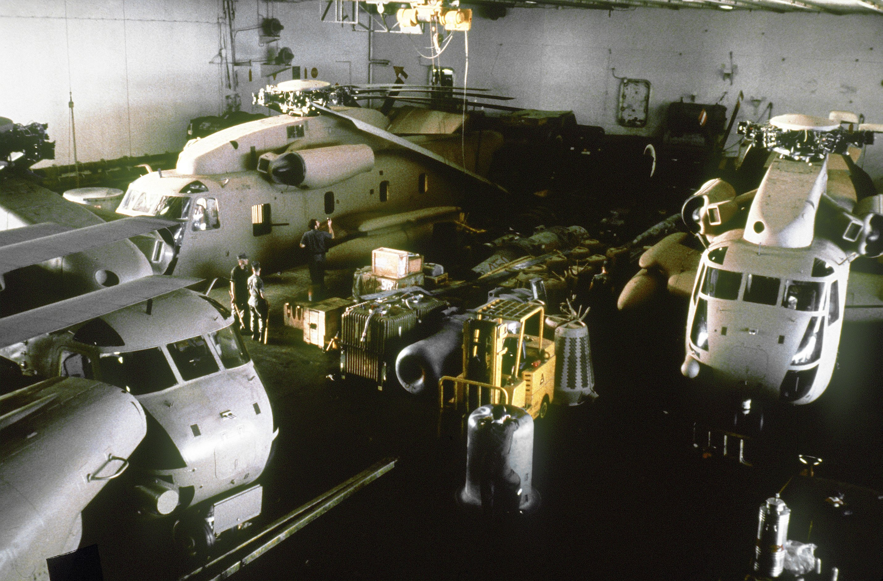 ID: DN-ST-82-00638 Service Depicted: Navy Operation / Series: EVENING LIGHT An interior view of the hangar bay aboard the nuclear-powered aircraft carrier USS NIMITZ (CVN-68). The parked RH-53 Sea Stallion helicopters are being readied for Operation Evening Light, a rescue mission to Iran.